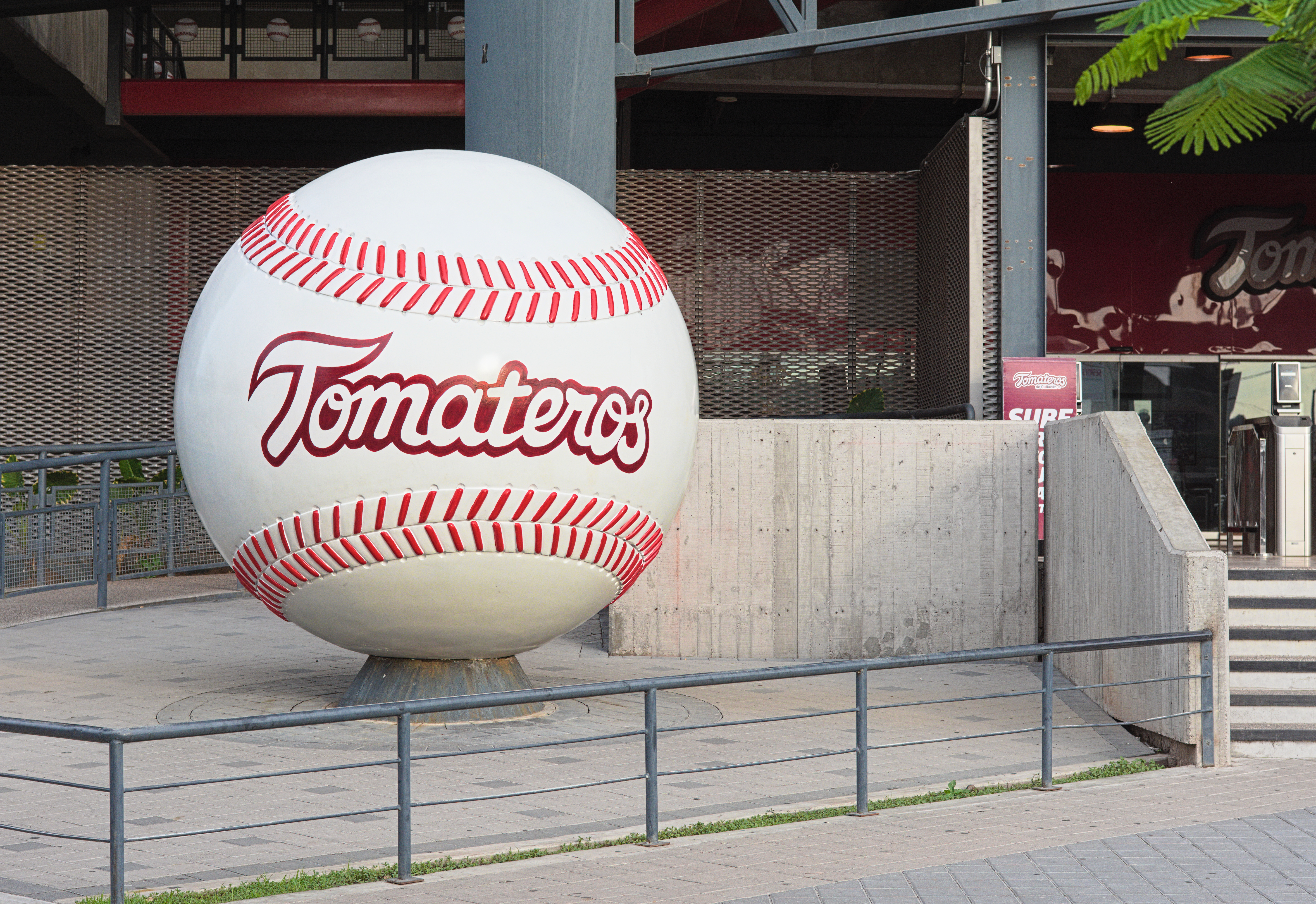 Giant base ball on tomateros stadium, Culiacan, Sinaloa, Mexico